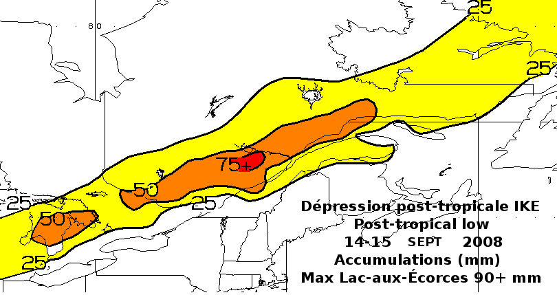 Accumulations recorded in Canada with the post-tropicale low remnant from Ike, 14 to 15 September 2008. This was done on KPAINT according to Environment Canada (EC) data on the CRIACC site and EC Climatological data site on October 14 and October 15